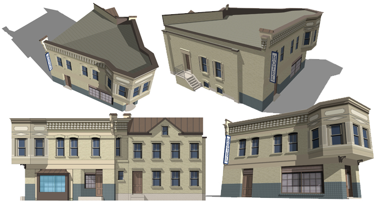 2D image, exported from a 3D model, of a building that once existed, until 1976, on the now demolished RKO Studios backlot called Forty Acres. Atypical of most sets at 40 Acres, this structure was a complete building, with a practical roof and some interior sets on the main floor. The building was used as a film set and appeared on television's The Andy Griffith Show as Walker's Drug Store. It was featured in the 1949 film noir classic The Set-Up as the Hotel Cozy; and appeared again, although not as extensively, on Star Trek's episode of Miri as the Rusk Hotel. Showing four views of the building as it once stood, including an elevation, the 3D model was constructed in SketchUp 6.0 in 2008 by Bill Wrigley.